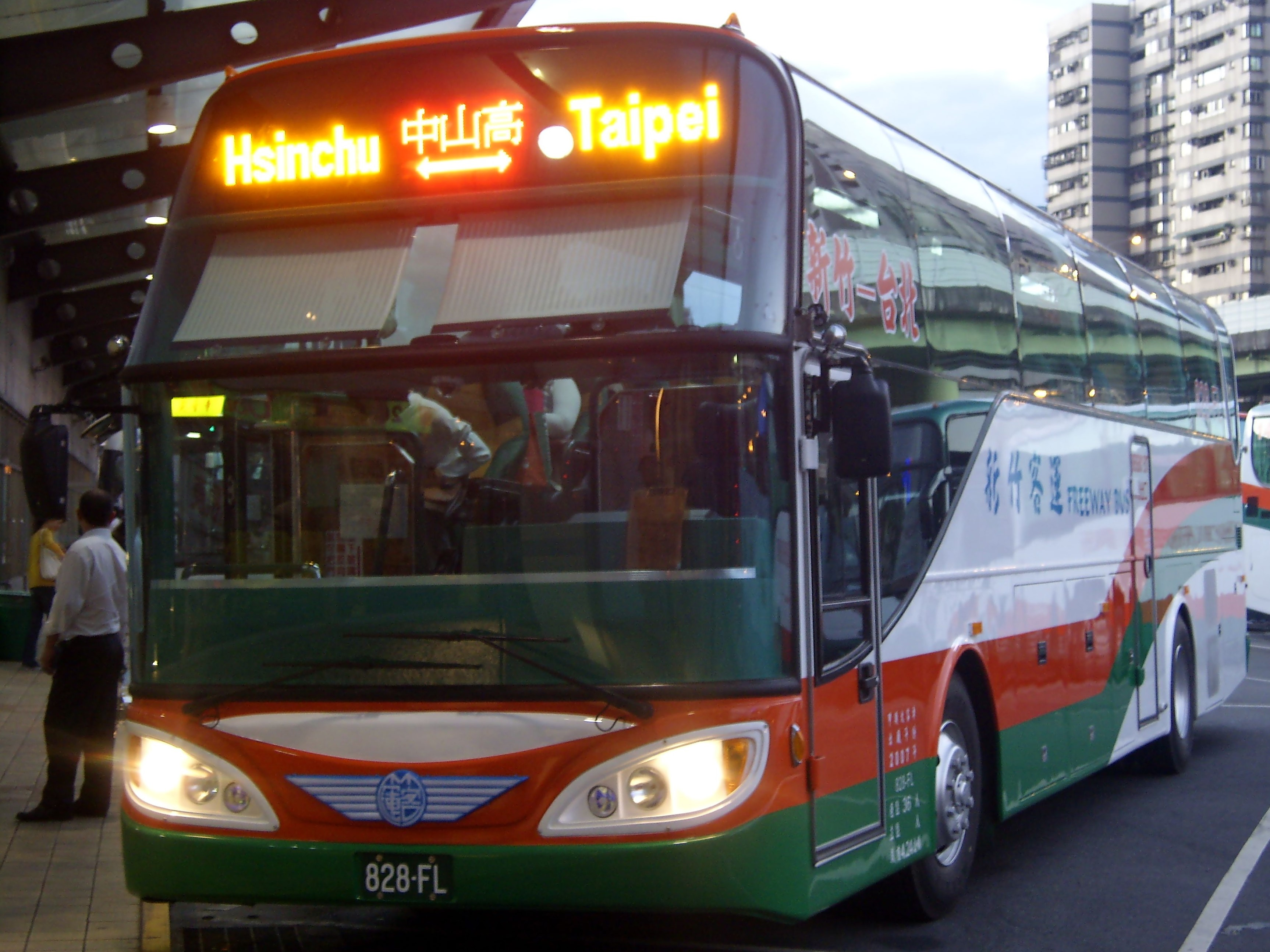 A new Fuso RM11FNL bus is purchased by Hsinchu Bus Co., Ltd.